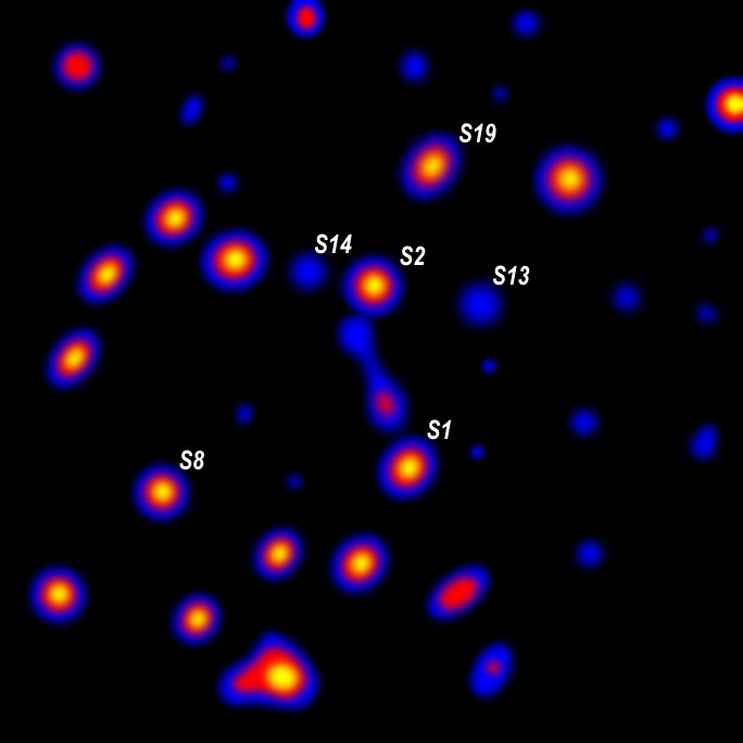 Сentral Squire Arcsecond of Our Galaxy with Black Hole in Center (not visible :~). Artist's Impression by AdmiralHood.